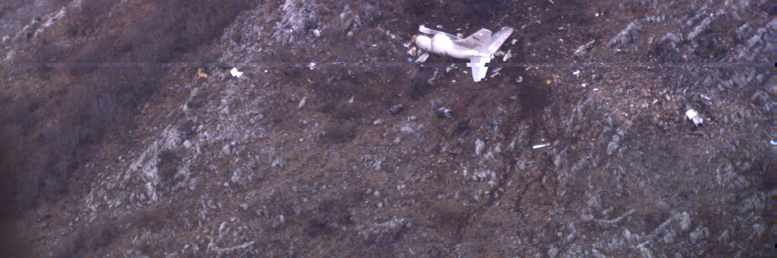 CT-43 Wreckage